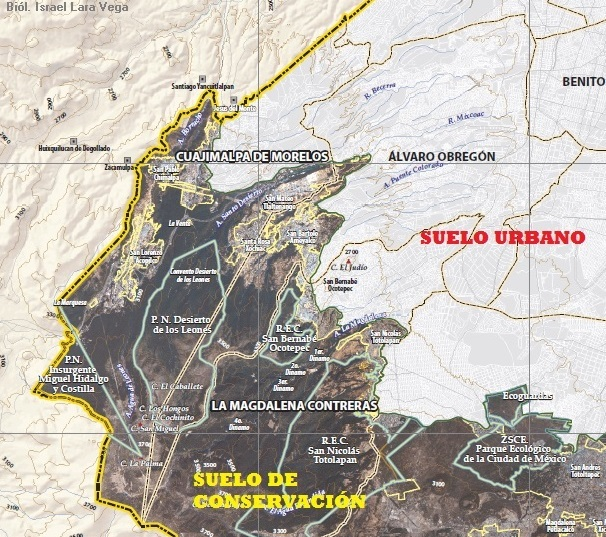 suelo de conservación y suelo urbano, distrito federal, cuajimalpa